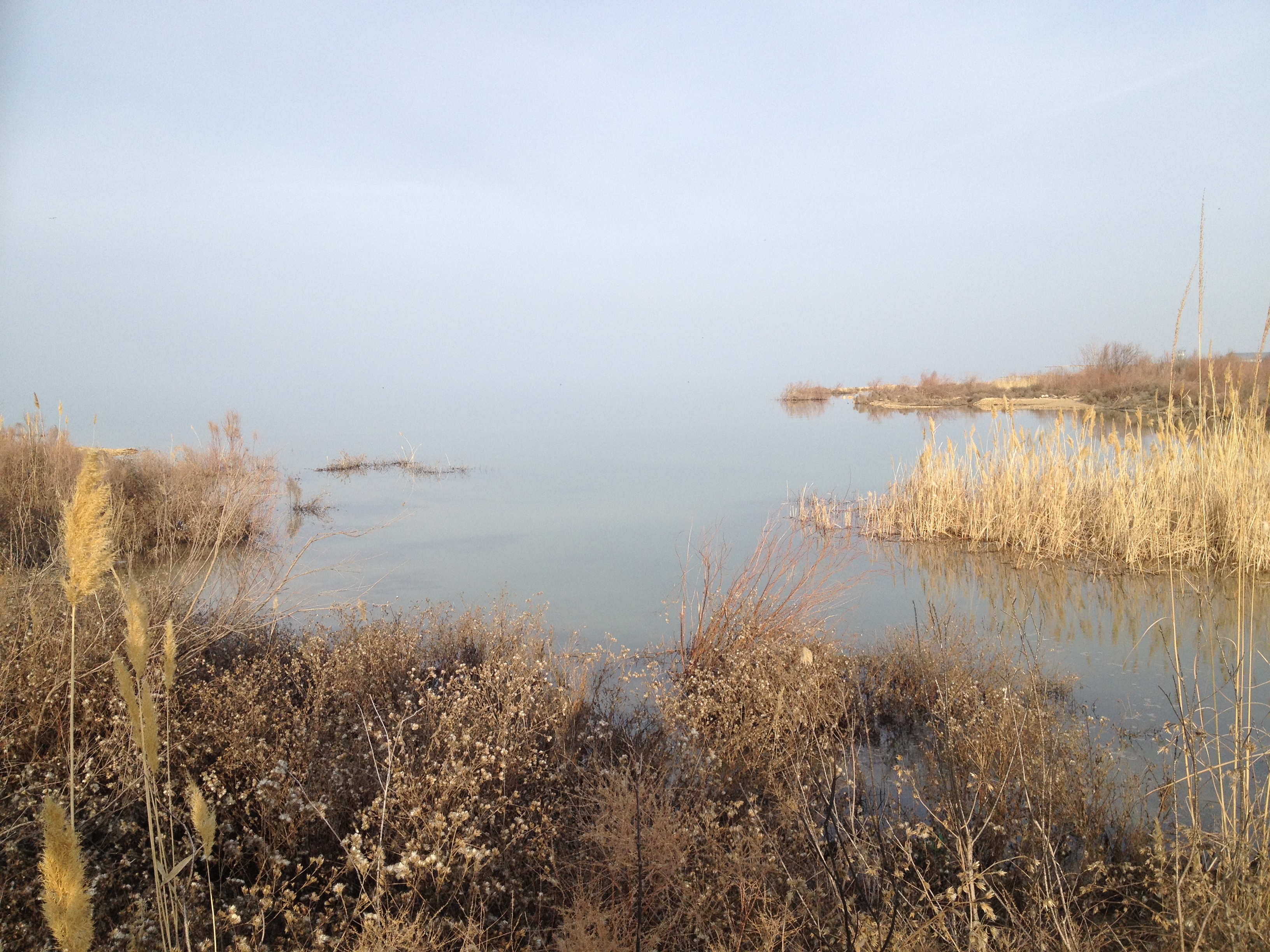 Reedbed on the beach of Tudakul